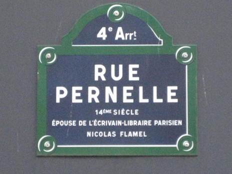 Street sign of Rue Pernelle in Paris, 4th Arrondissement